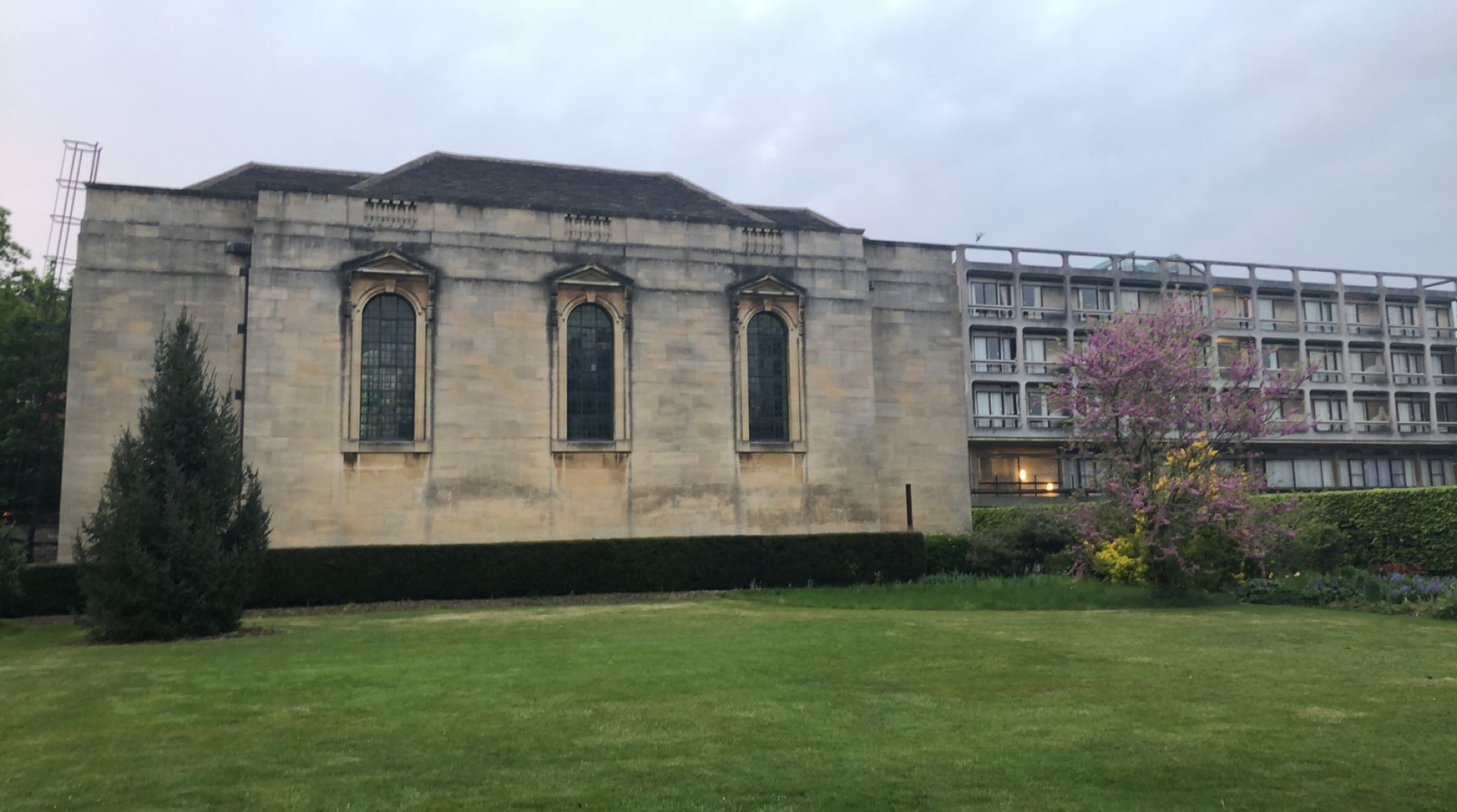 Chapel and Vaughan, Somerville College, University of Oxford, United Kingdom